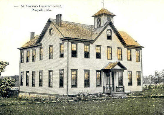 Post card of St. Vincent's Parochial School, Perryville, Missouri. Between 1907 and 1915. Color postcard; 3.5 x 5.5 in; 8.89 x 13.97 cm.